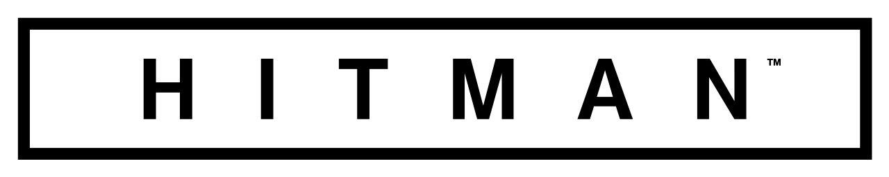 The logo of the Hitman (2016) game.